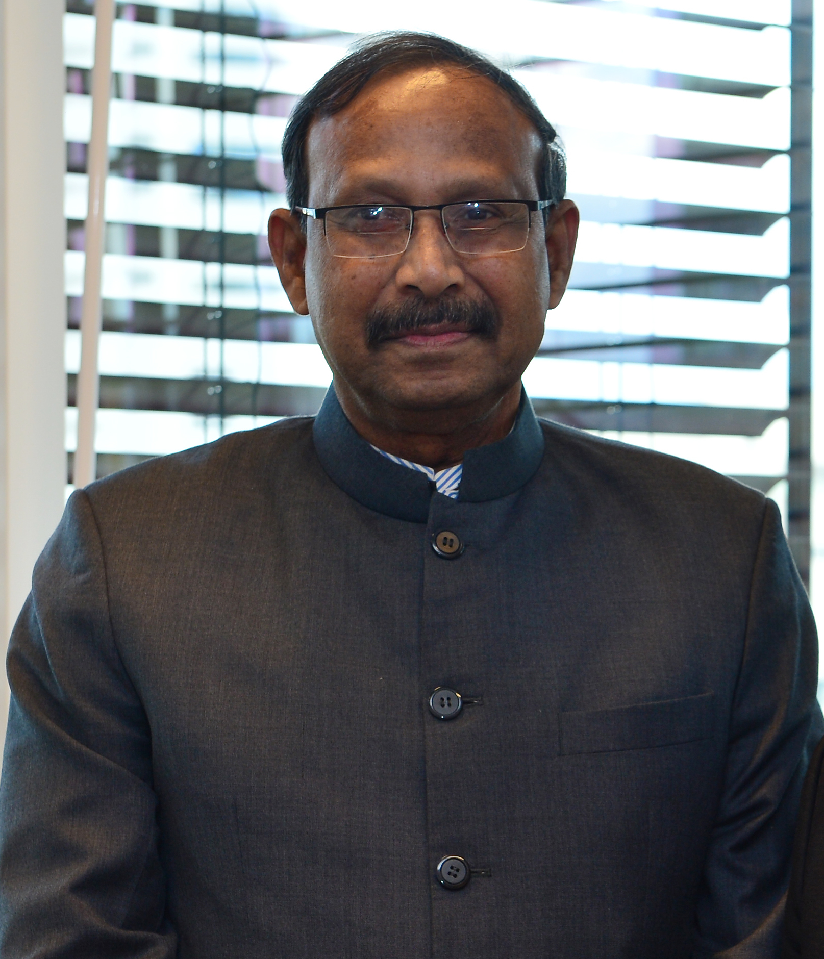 Bilateral meeting between H. E. Mr. Yeafesh Osman, Minister of State, Ministry of Science and Technology of Bangladesh, and IAEA Director General Yukiya Amano at the IAEA 57th General Conference. IAEA, Vienna, Austria. 19 September 2013. Photo Credit: Dean Calma / IAEA